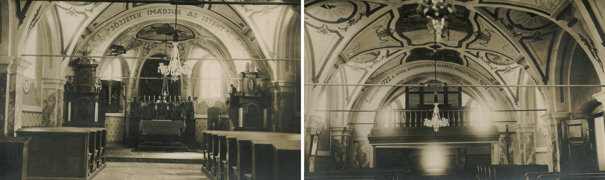 Church of Paňa from 1932